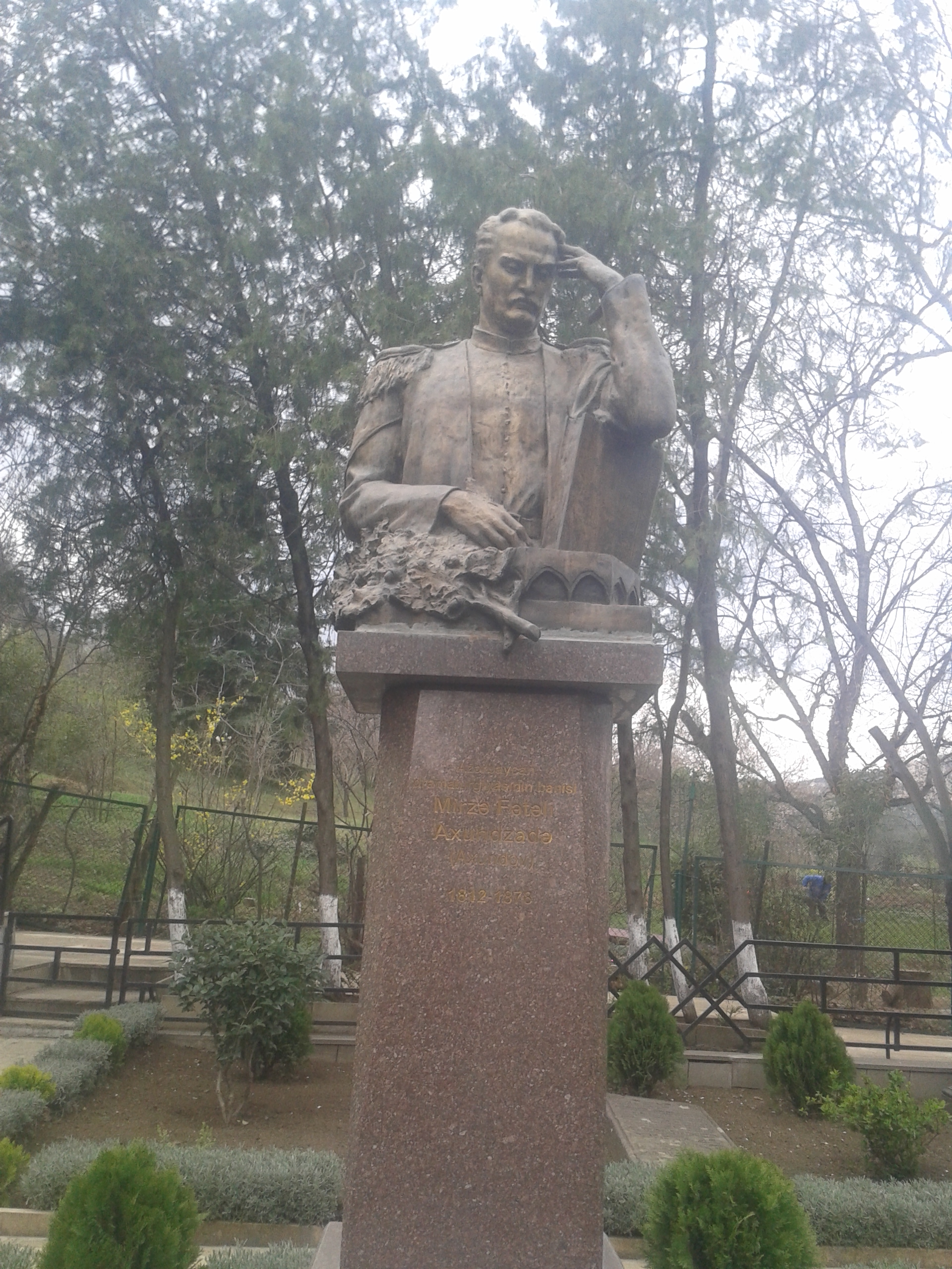 Grave of Mirza Fatali Akhundov located in the National Botanical Garden of Georgia, Tbilisi, Georgia